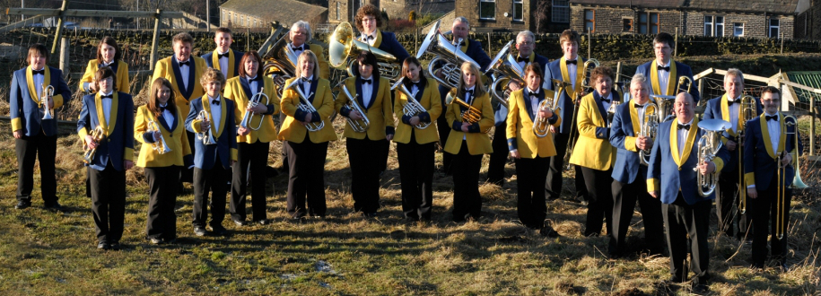 The Dinnington Colliery Band, cropped to focus on just them